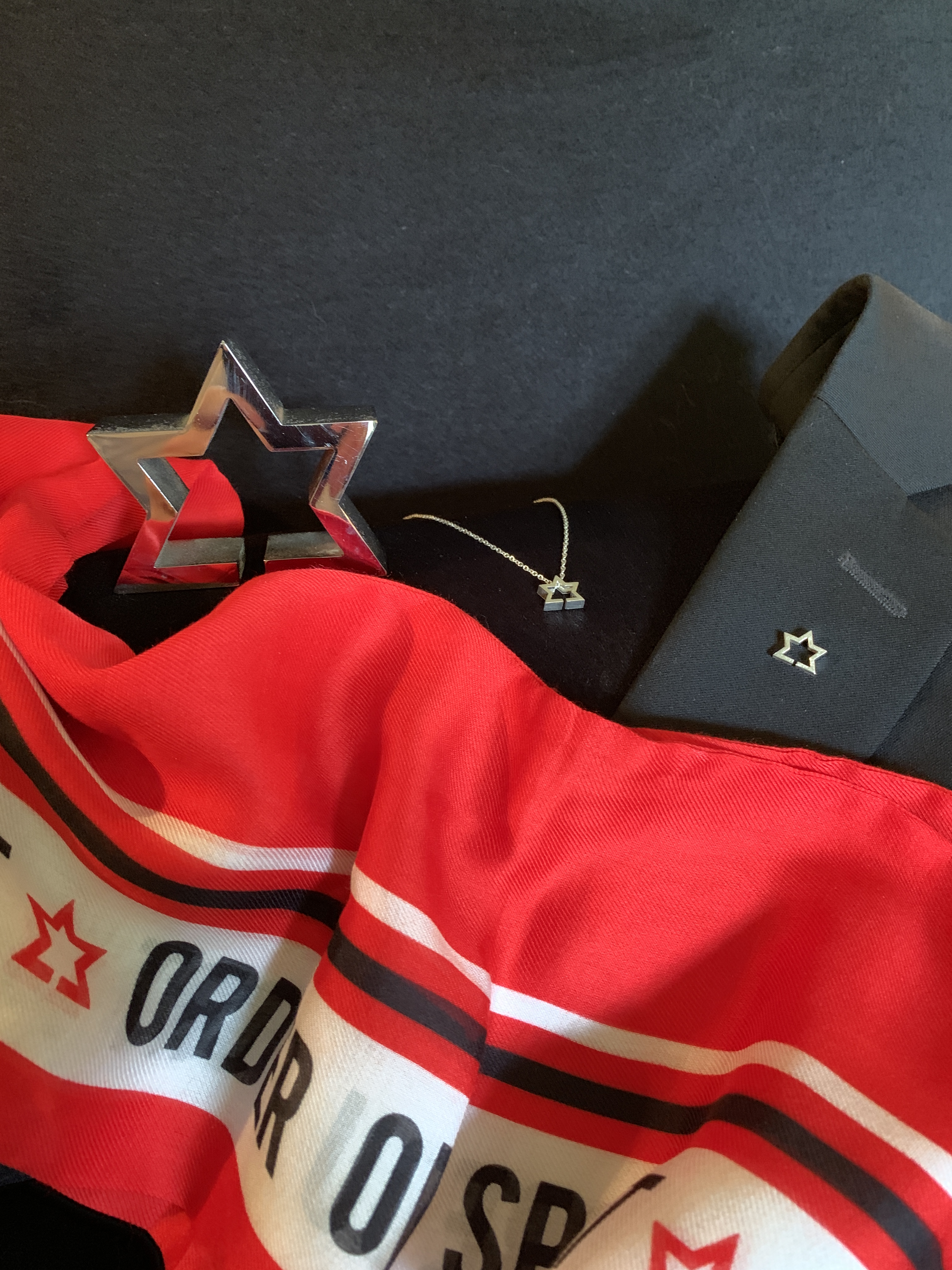 The Order of Sport award, scarf, pendant and pin are a collaboration of Greg Durrell and Wendy Robertson with production by Fair Trade Jewellery - Toronto, Valley Metal - Calgary and Shepherd + Woodward, Oxford, England.